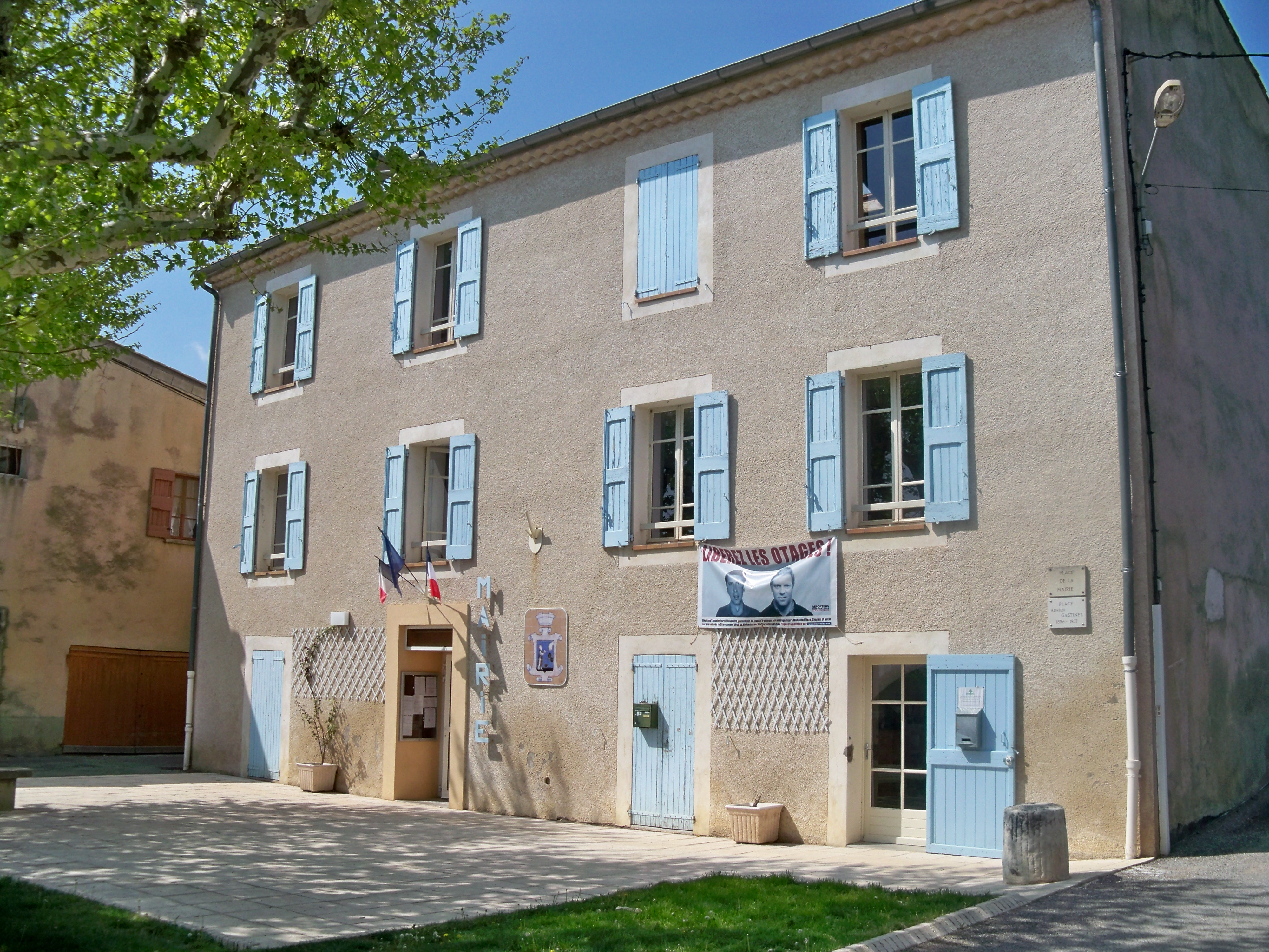 Town hall in Saint Etienne les Orgues